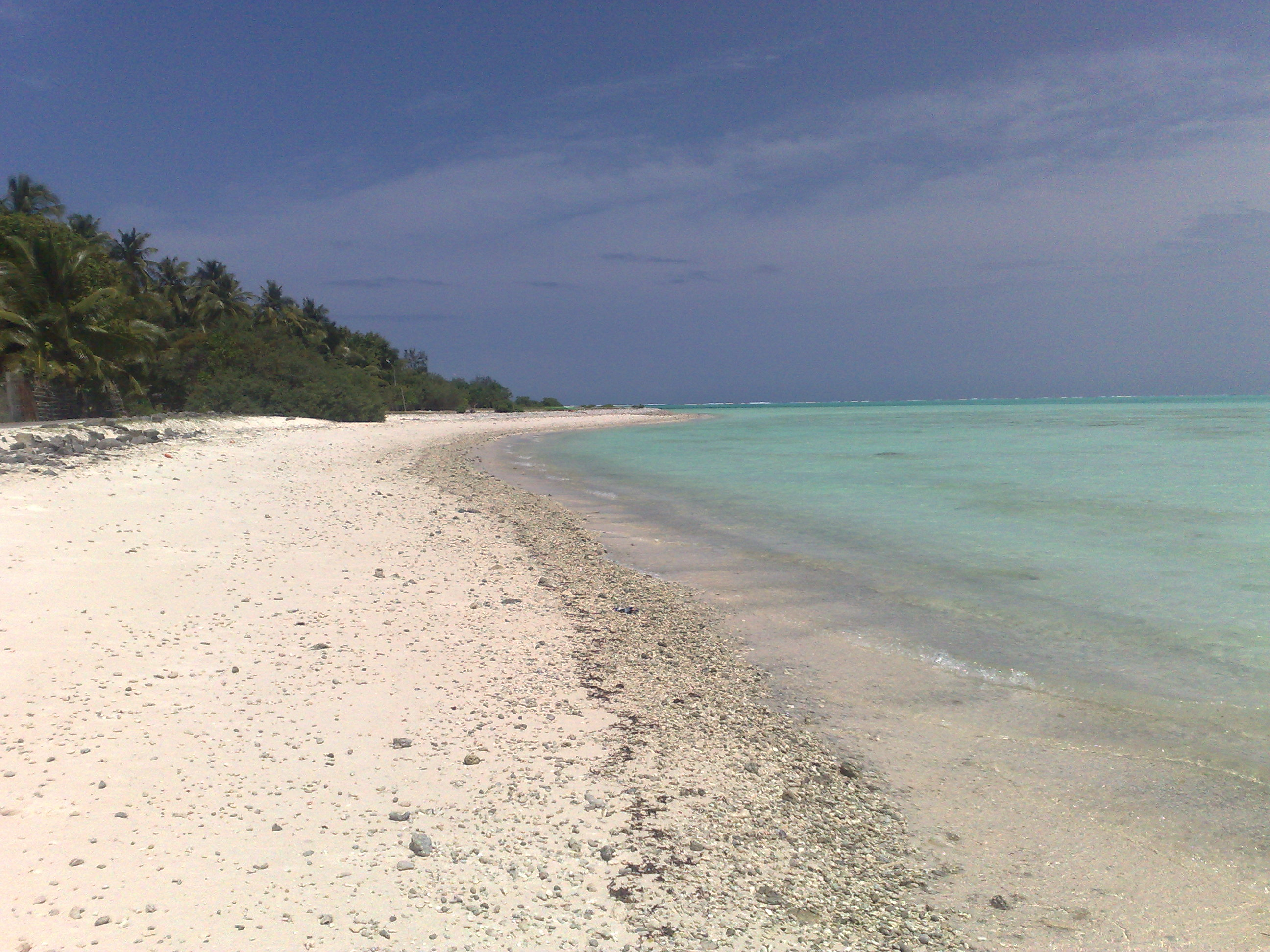 This is the part of Minicoy Island.Its covered with full of green vegetation,sea shore and its surrounded by blue sea.